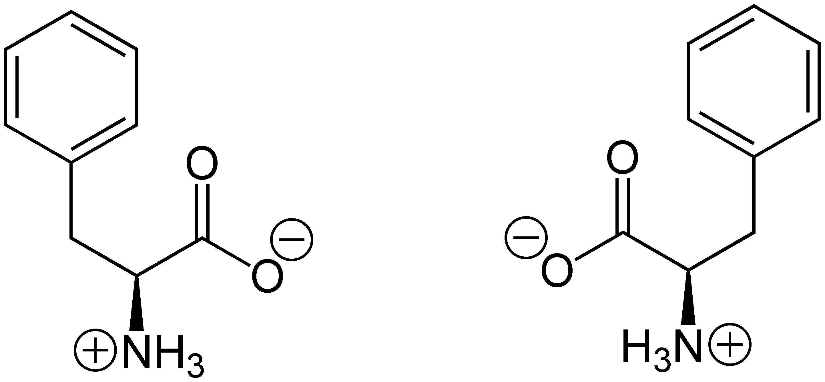 Zwitterion of Phenylalanine